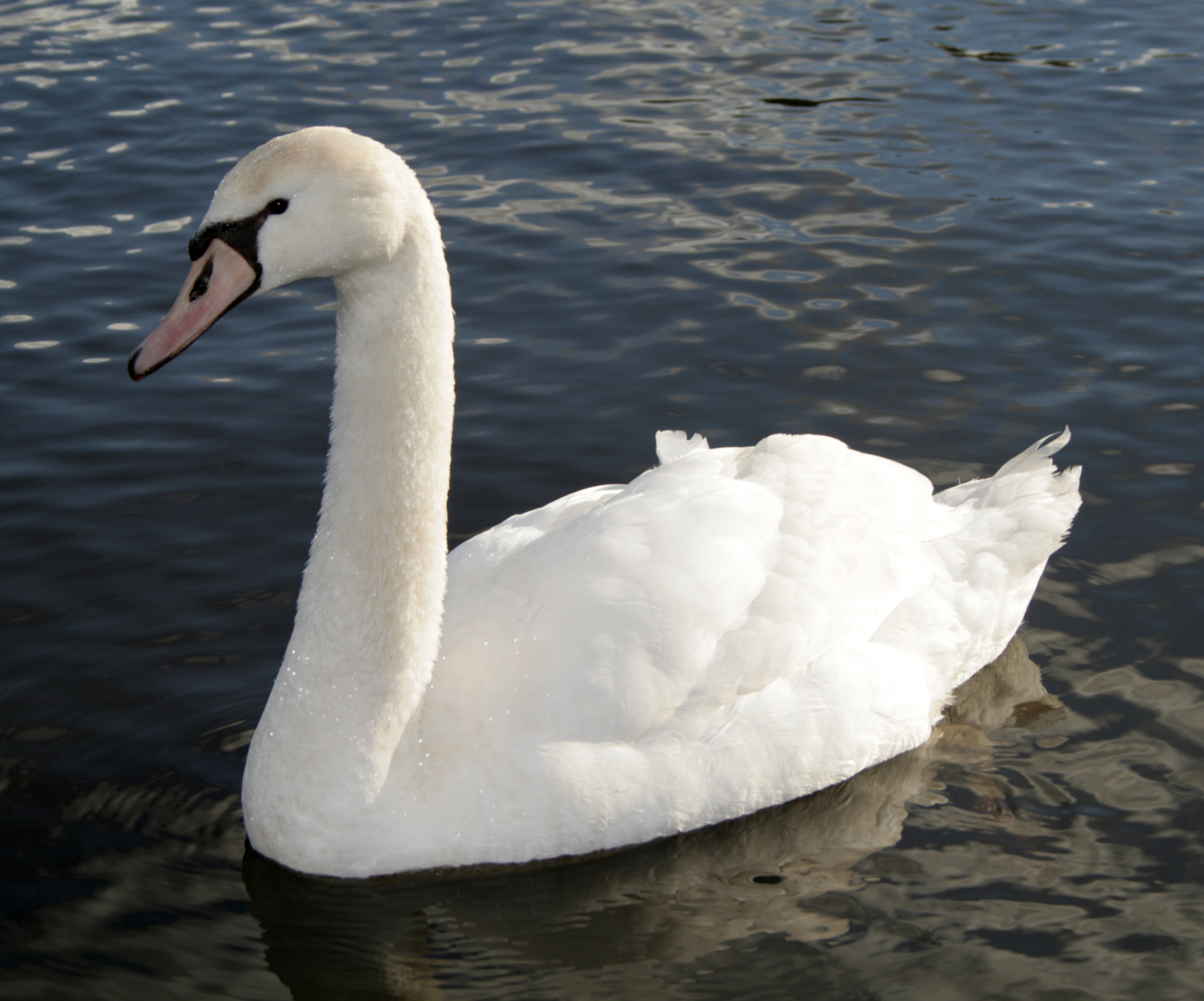 Mute swan (Cygnus olor) in the river Amstel near the Martin Luther Kingpark, Amsterdam, Holland.